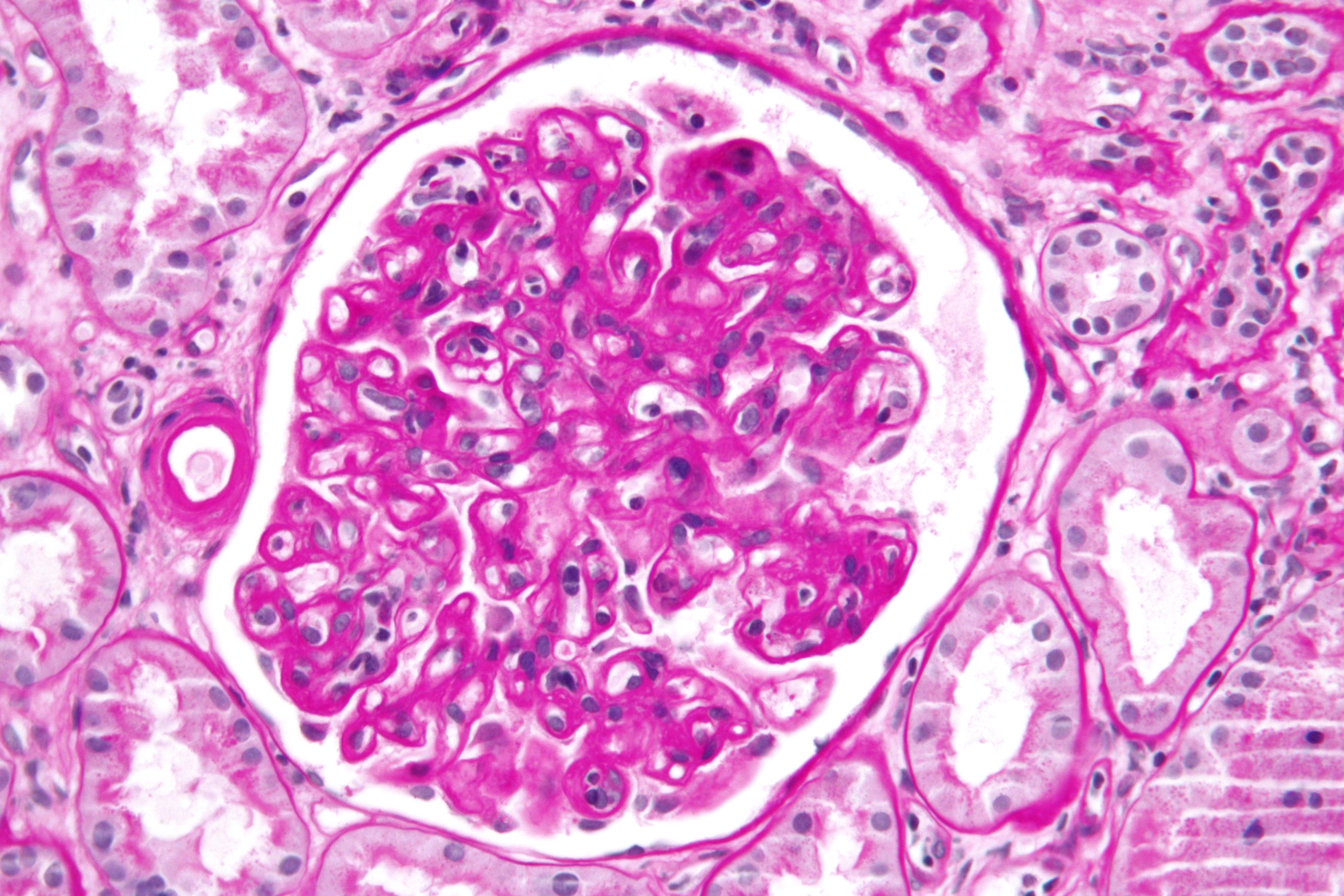 Very high magnification micrograph of transplant glomerulopathy. PAS stain. Kidney biopsy. It is considered to be a form of antibody-mediated rejection.[1] The differential diagnosis of tram-tracking of the basement membrane is:[1] Membranoproliferative glomerulonephritis (hepatitis C). Thrombotic microangiopathy. Related images Intermed. mag. High mag. Very high mag. References ↑ a b (Oct 2011). "Transplant glomerulopathy: it's not always about chronic rejection.". Kidney Int 80 (8): 801-3.